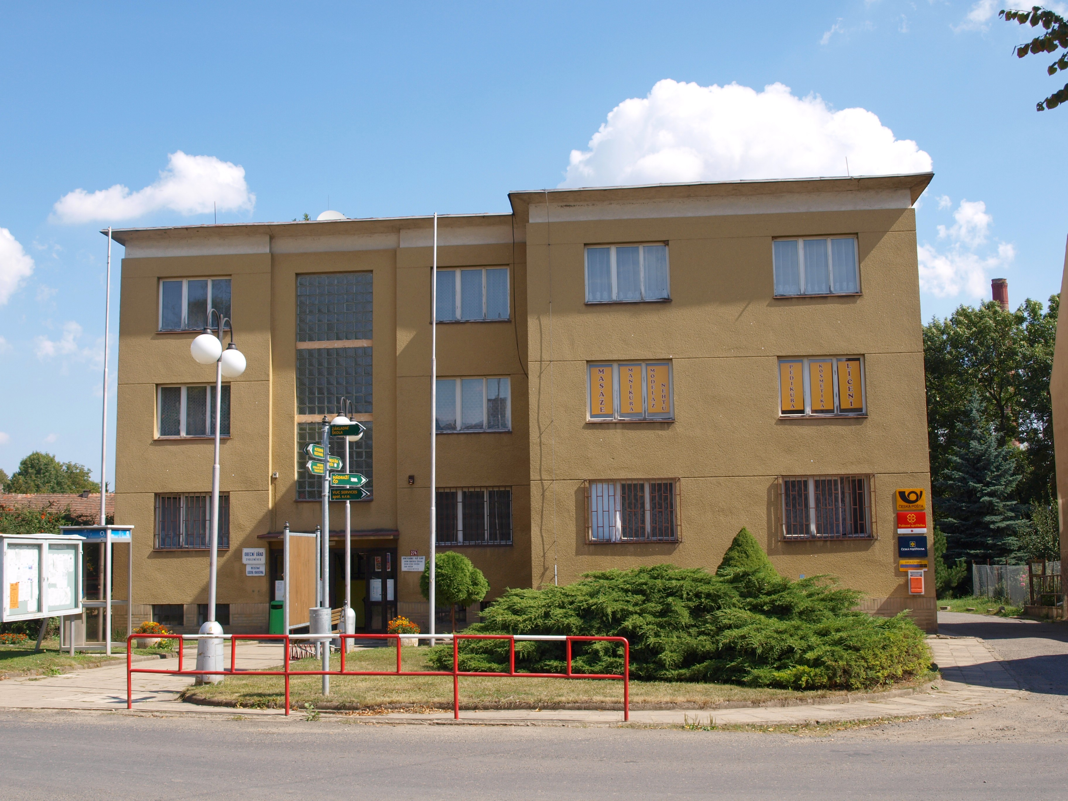 Municipally office and post, Zvoleněves, Kladno District, Czech Republic